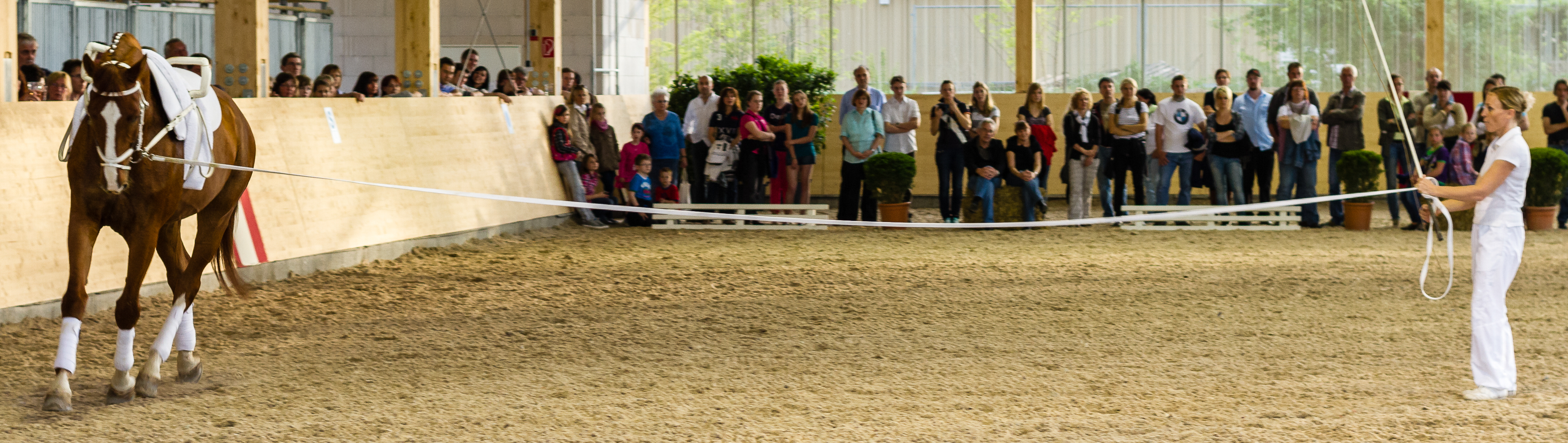 Vaulting horse on a lead rope